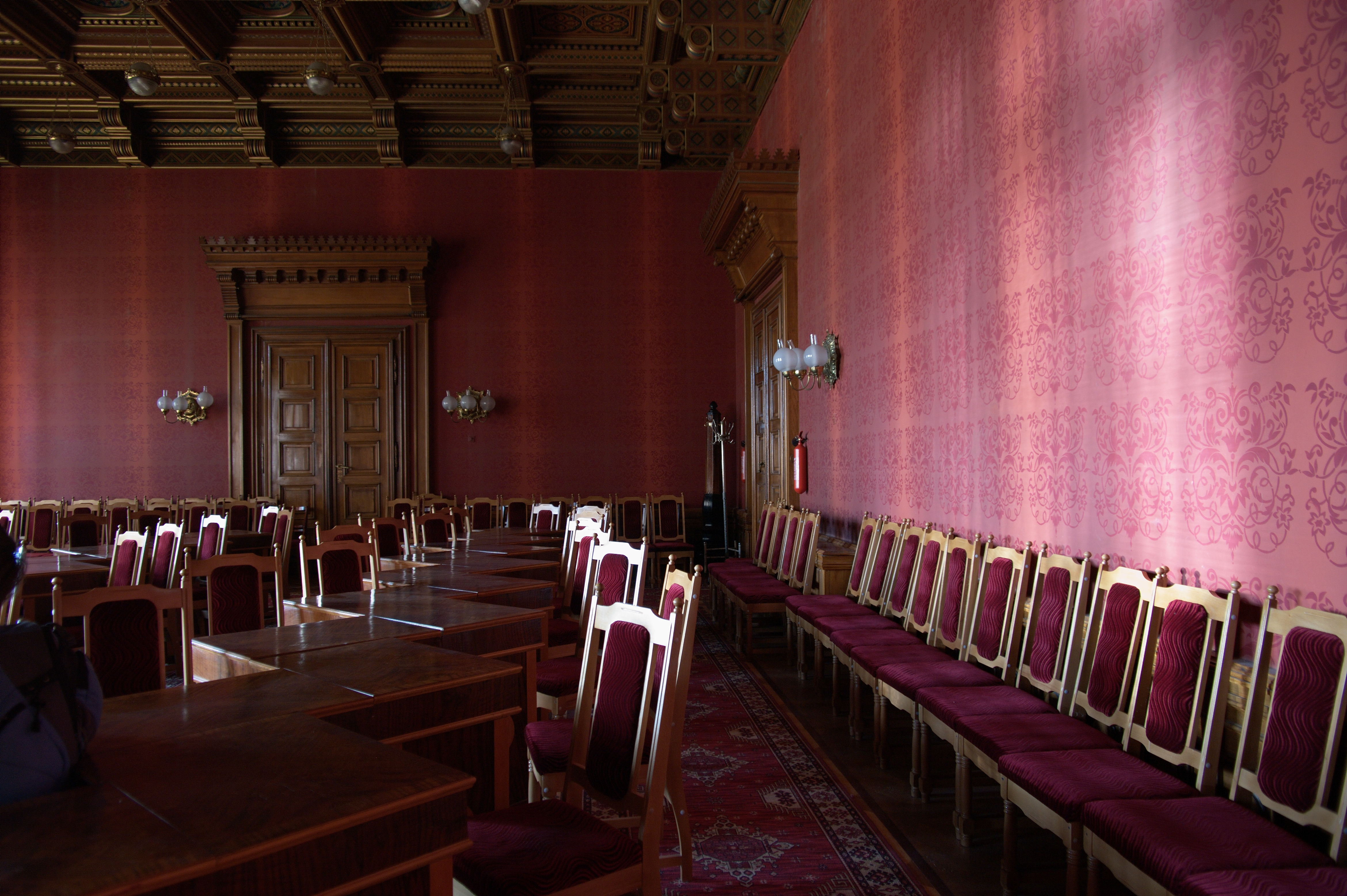 Chernivtsi University Red Hall